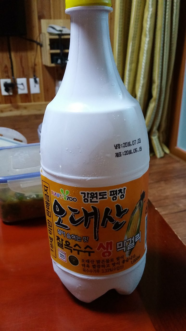 Pyeongchang Odaesan corn Makgulli